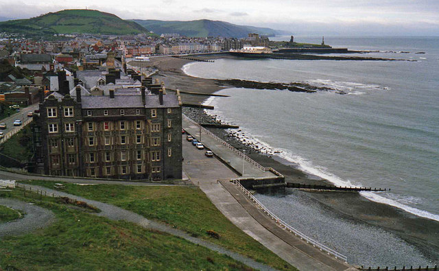 Alexandra Hall and Victoria Terrace Looking south to the end of Victoria Terrace. J. P. Seddon first designed Victoria Terrace as a row of 25 houses, to be polychrome Gothic, in three colours of brick with stone detail, but only the first three houses were built before the scheme was abandoned. The terrace was eventually continued northwards after 1874 and a further twelve houses were built at this end, still Gothic, but with a lower specification. The large building at this end of the terrace is Alexandra Hall, opened in 1896 as a university hall of residence by Princess Alexandra and still (after some gaps) used as student accommodation today.